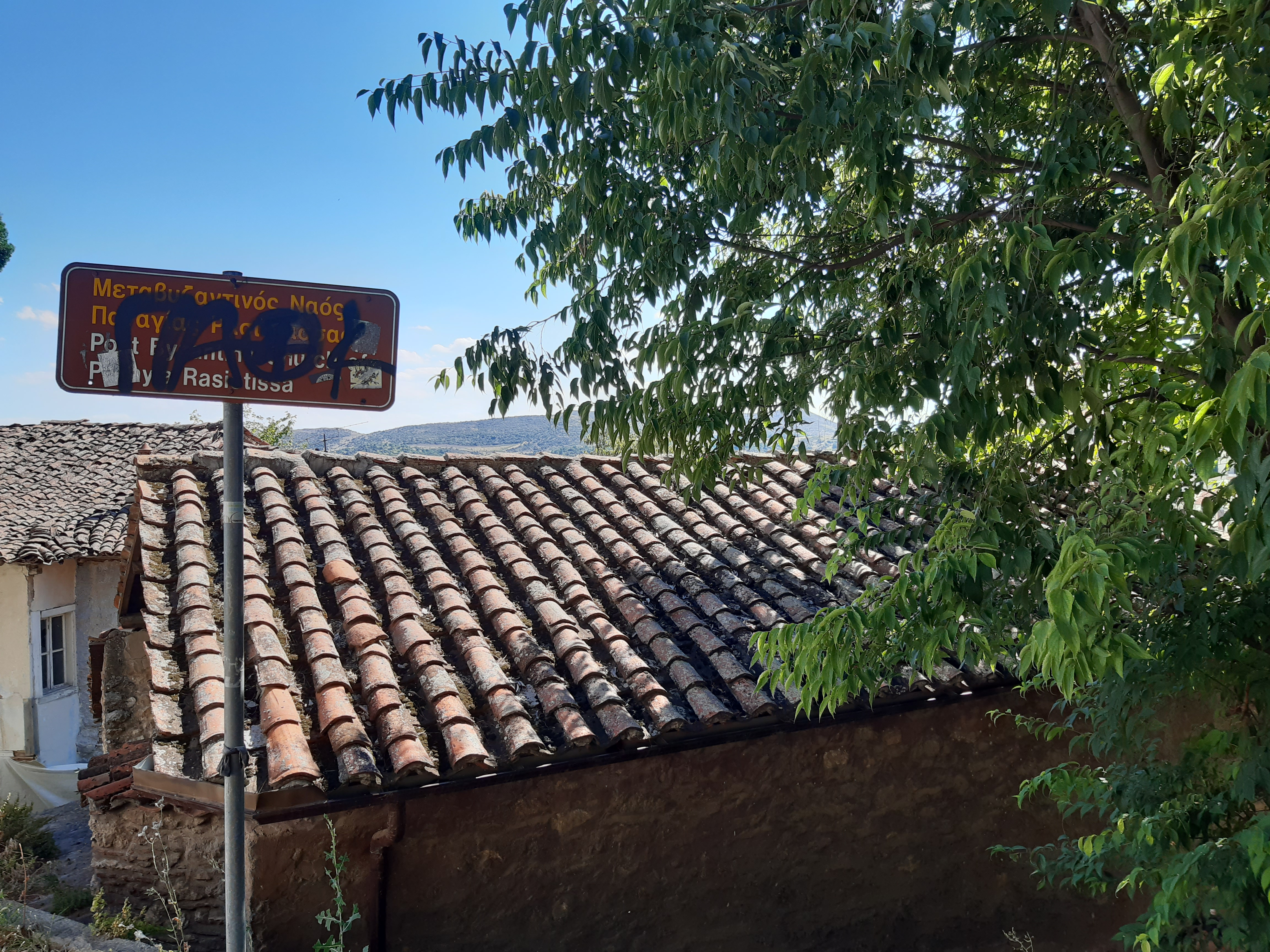 Saint Mary Rasiotissa Church